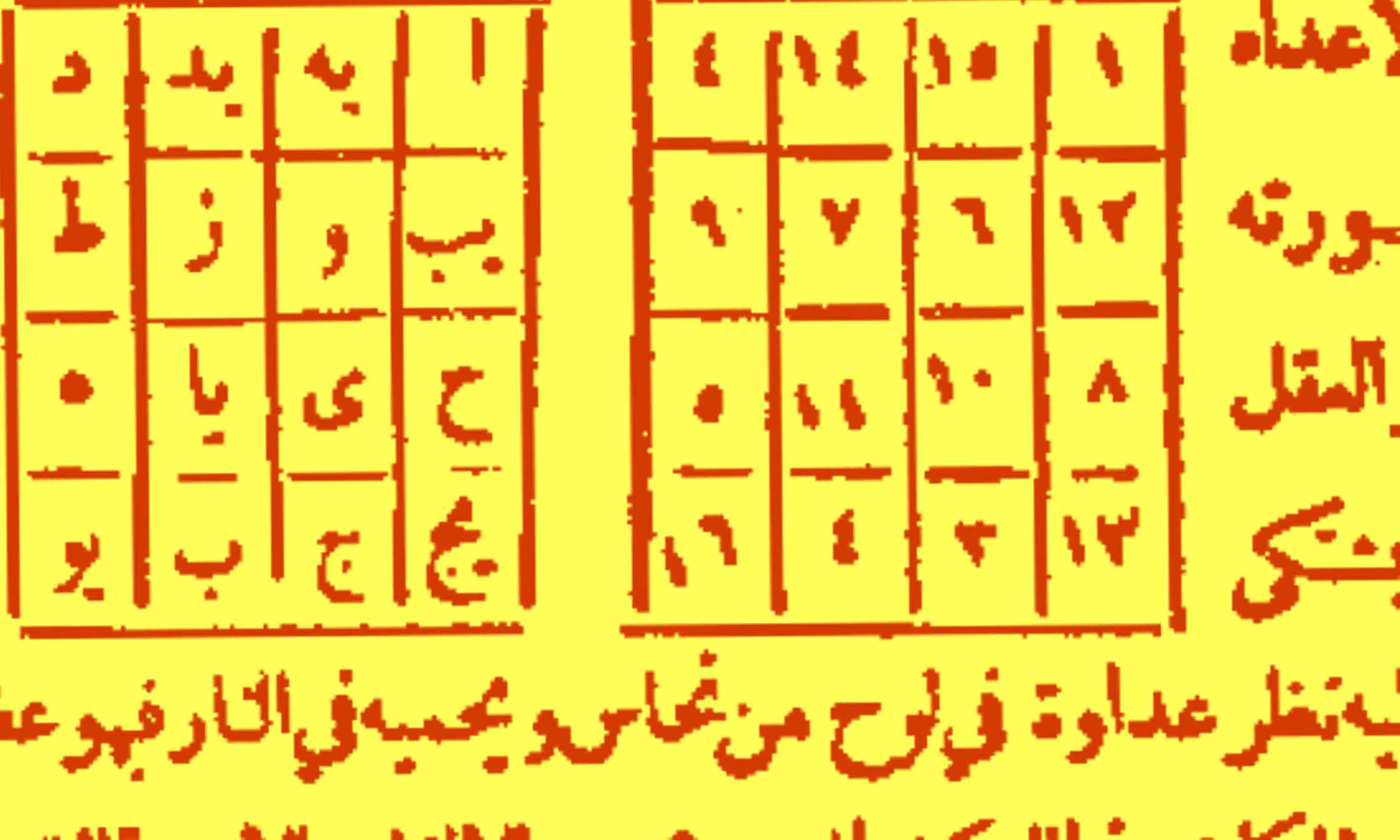 Shams Al marif magic square